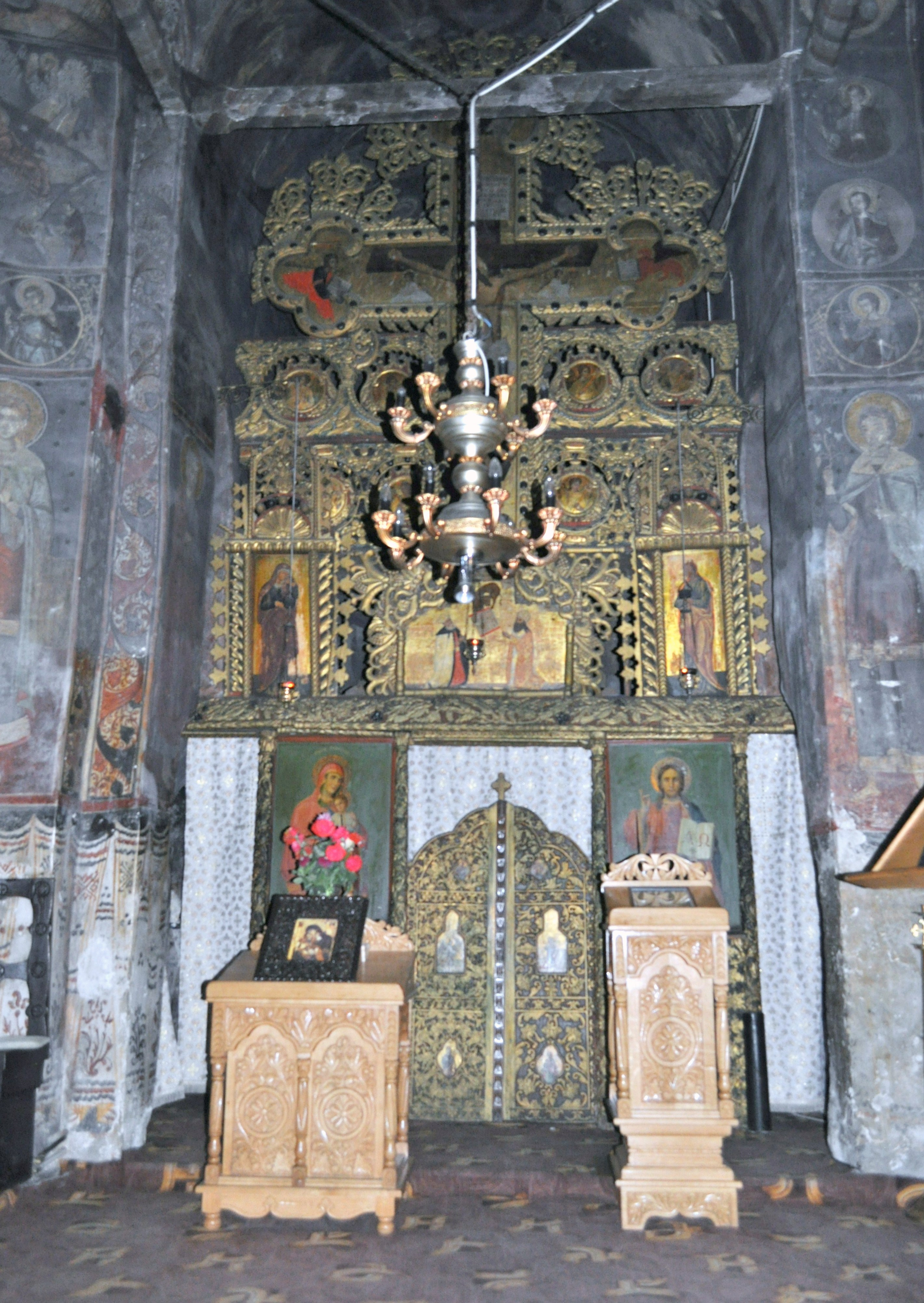 Crasna monastery, Gorj county